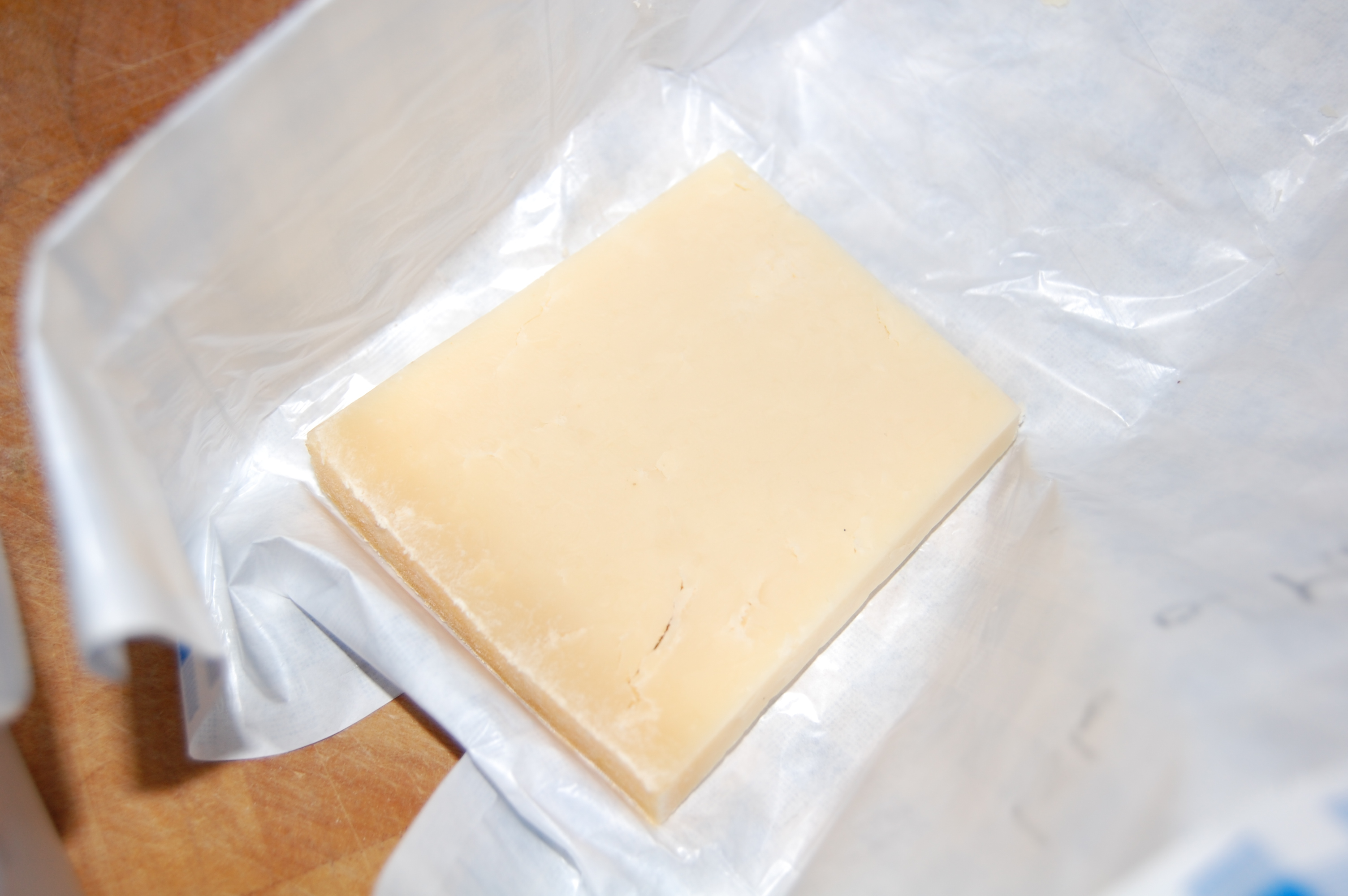 Isle of Mull cheddar cheese